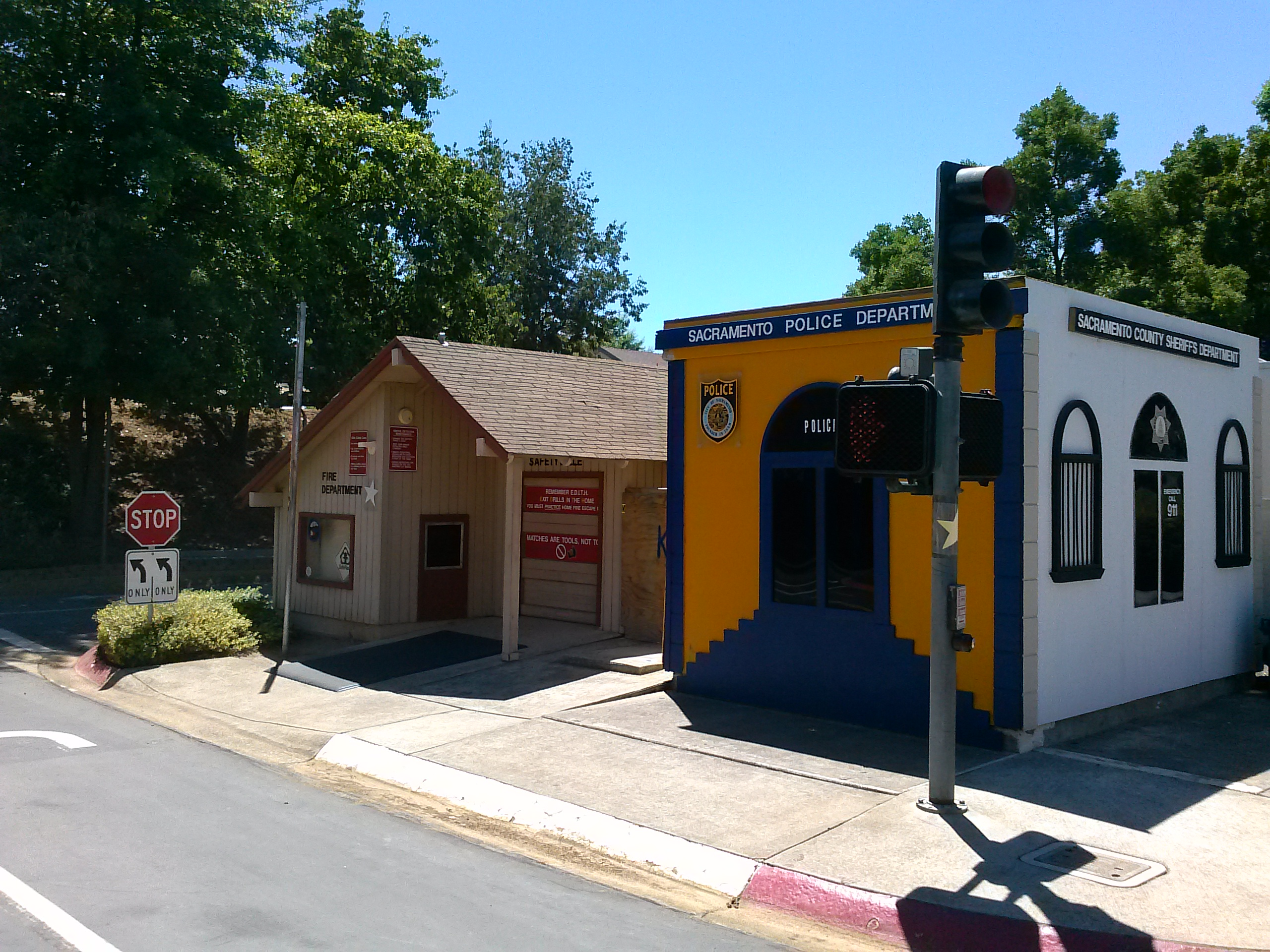 Image of the tiny Sacramento Police Department in Safetyville, USA Sacramento, California